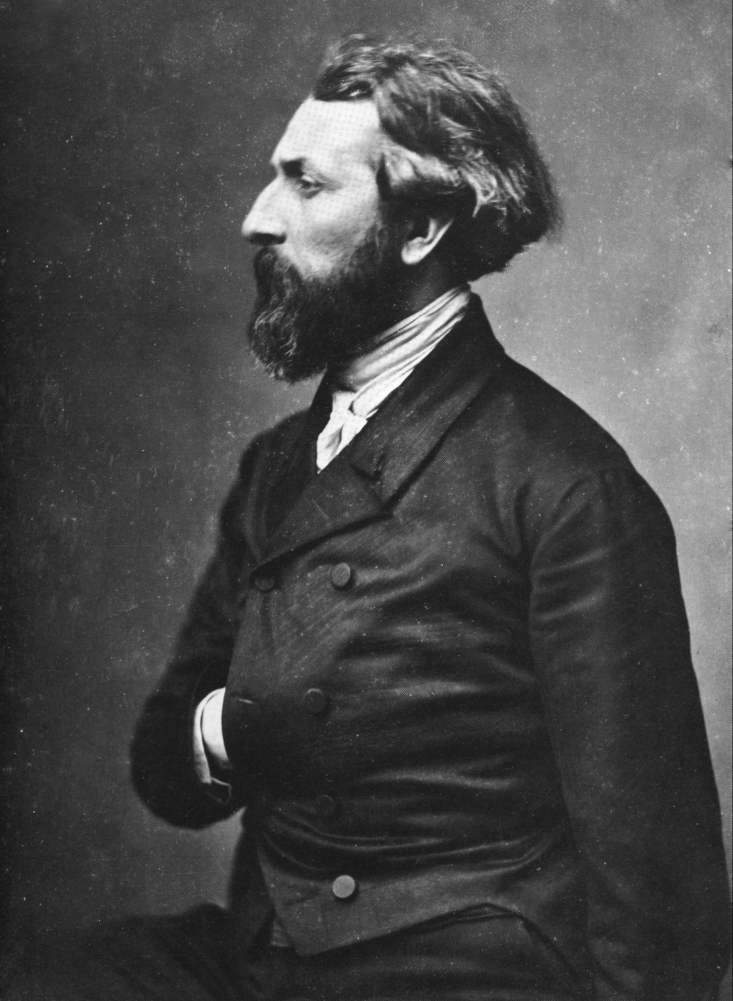 Photography of Jules Hetzel by Félix Nadar